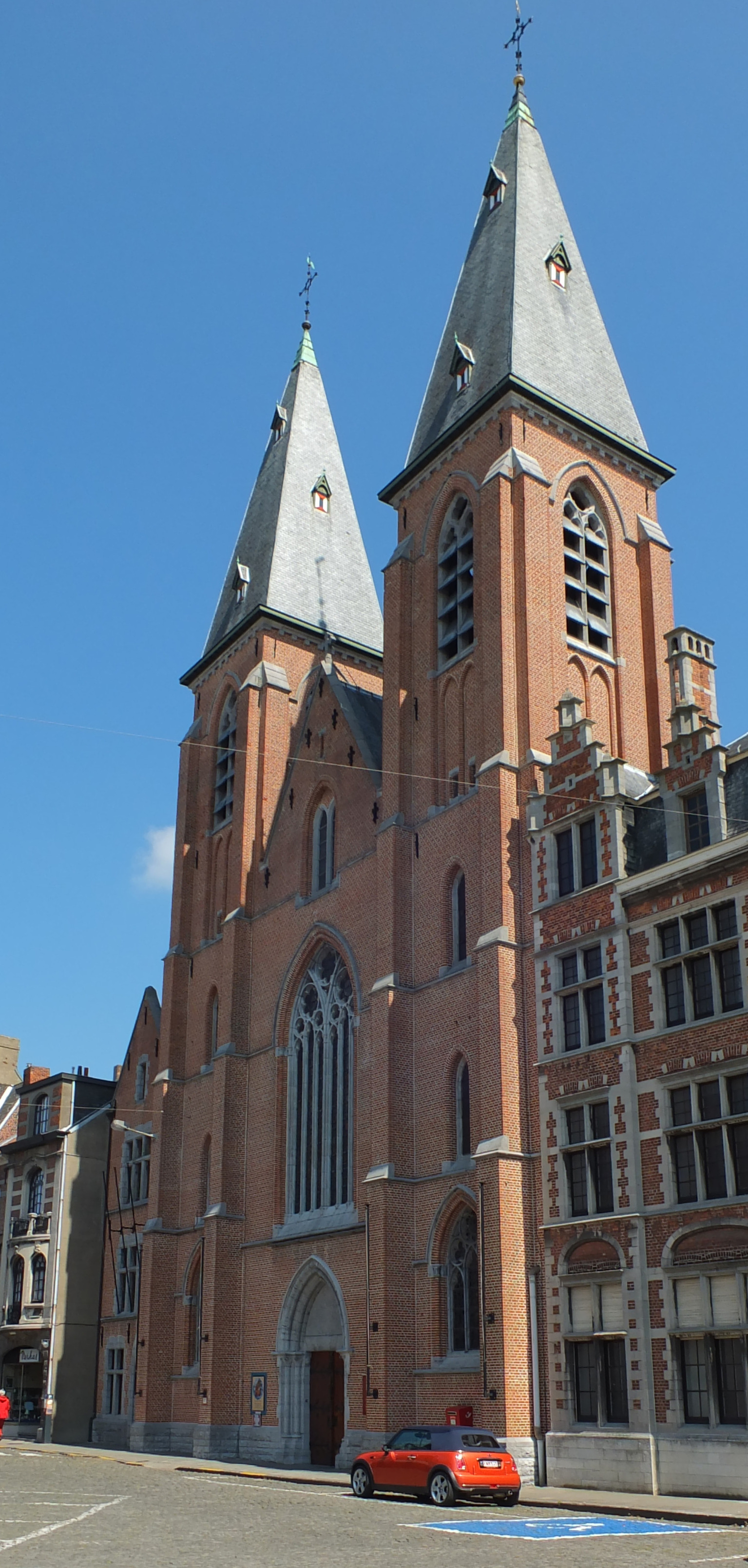 Church of the abbey of St Peter and Paul in Dendermonde.